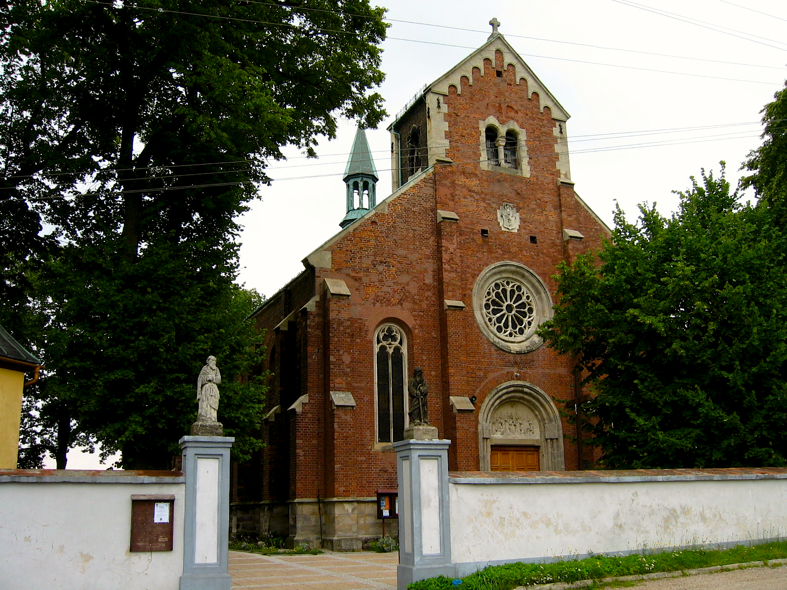 The Church in Nowa Góra near Krzeszowice